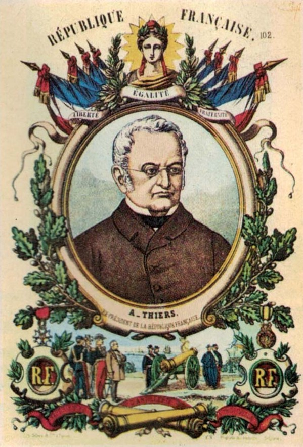 Adolphe Thiers by Épinal, 1877.